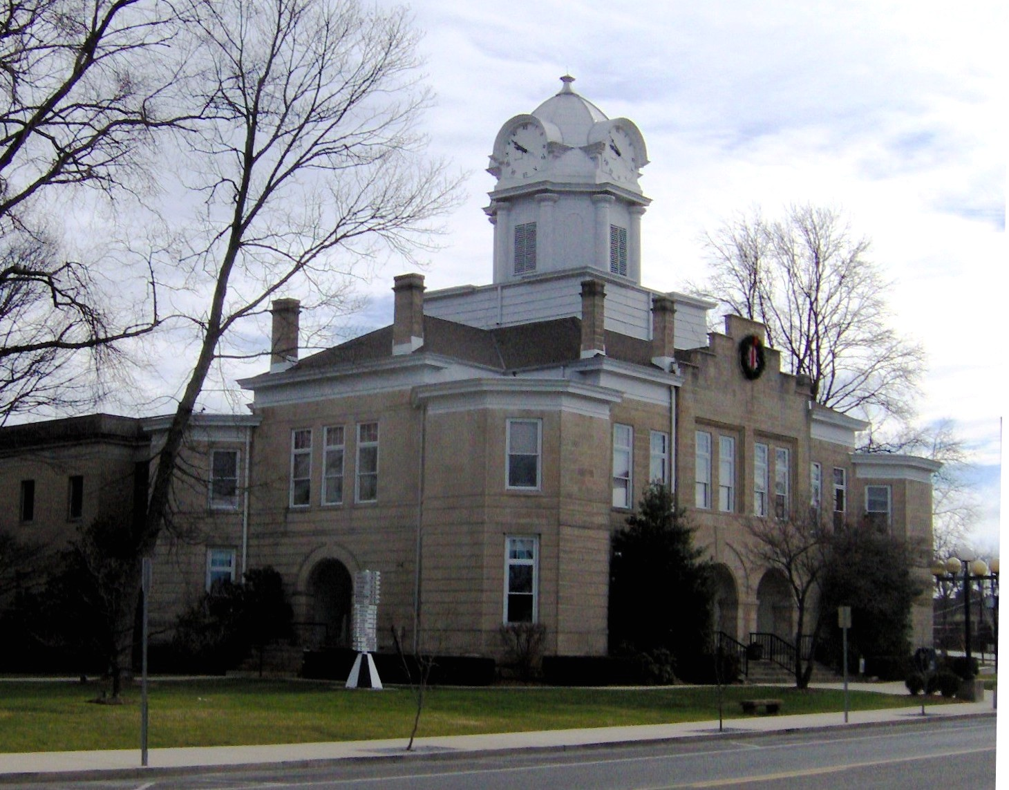 Cumberland County Courthouse in Crossville, Tennessee, located in the Southeastern United States. The courthouse was built in 1905, and constructed using Crab Orchard stone, a rare type of sandstone found in eastern Cumberland County.